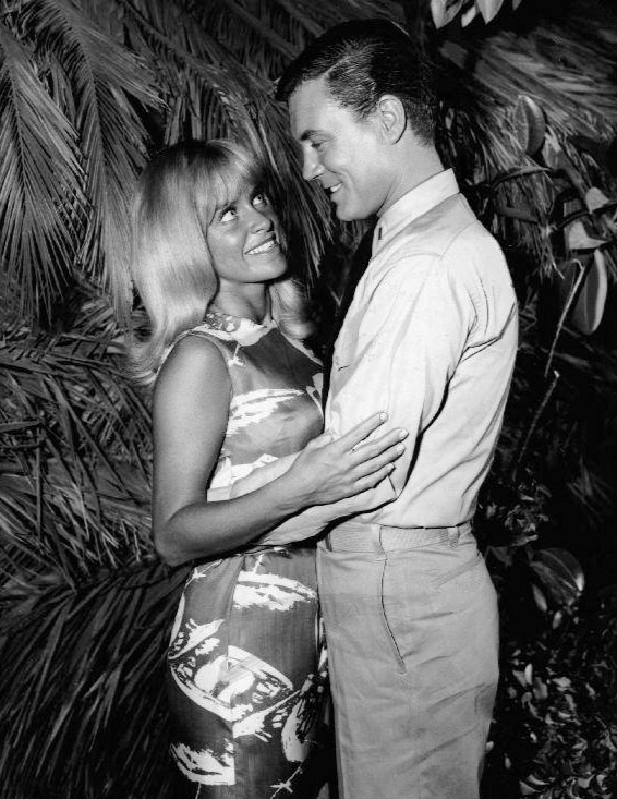 Photo of guest star Joy Harmon and Roger Smith as Mister Roberts from the television program of the same name.